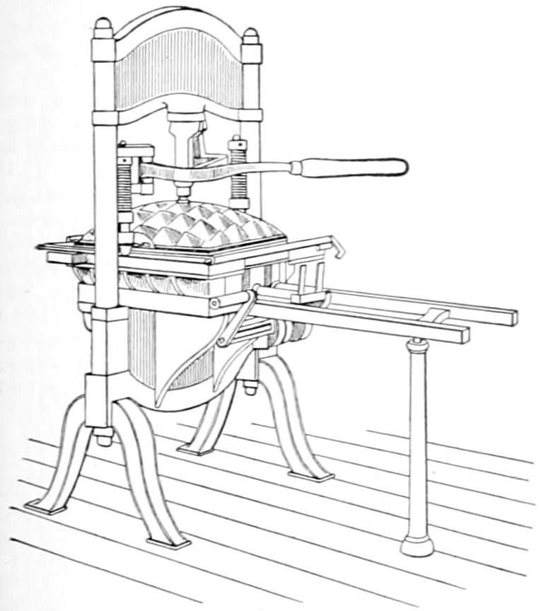 Drawing of Washington hand press.